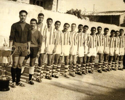 An old photo from the Al-Faisaly club archives dating back to the 1930s in Amman, Jordan